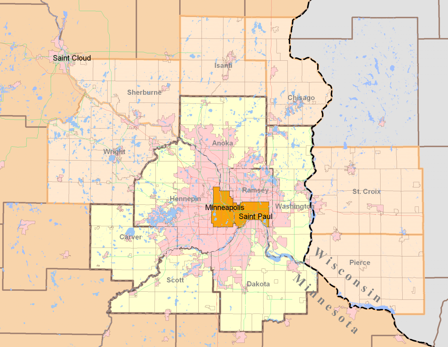 Minneapolis-Saint Paul (Twin Cities) highlighting both the 7-county Urban Area (traditional) and the revised 13-county Metropolitan Statistical Area from the 2000 Census. Today, the term Twin Cities typically refers to the metropolitan area. The pink areas represent urbanized areas as defined by the Metropolitan Council (urbanized meaning developed with sewer access and includes suburbia and small towns). The red and green lines are highways while the grid-like lines within the counties are township boundaries and mostly rural. Suburban cities are also defined within the pink area however they are not as apparent since their borders so regularly match up with existing highways and natural features.